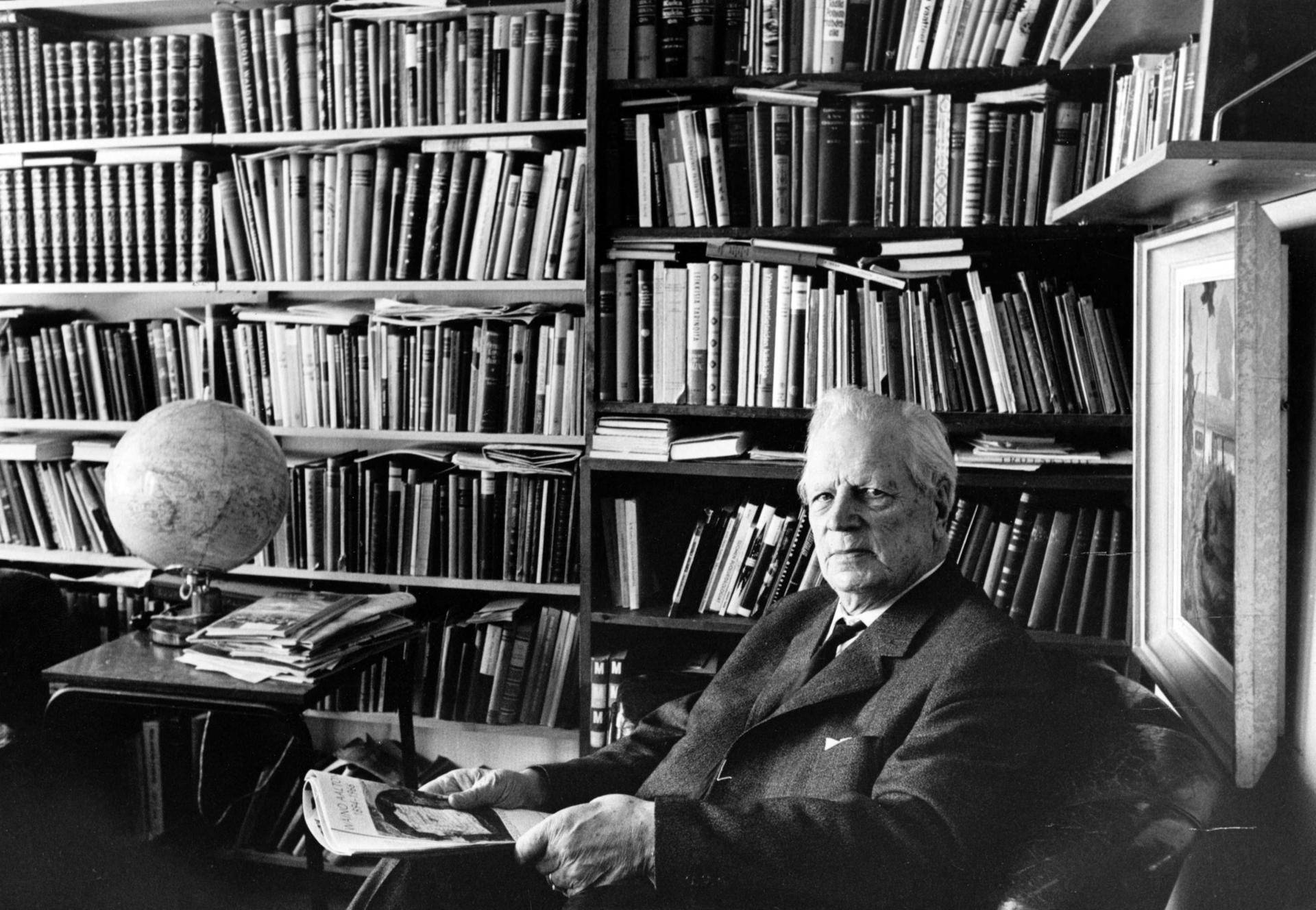 Photograph of the Finnish politician Yrjö Kallinen (1886–1976).